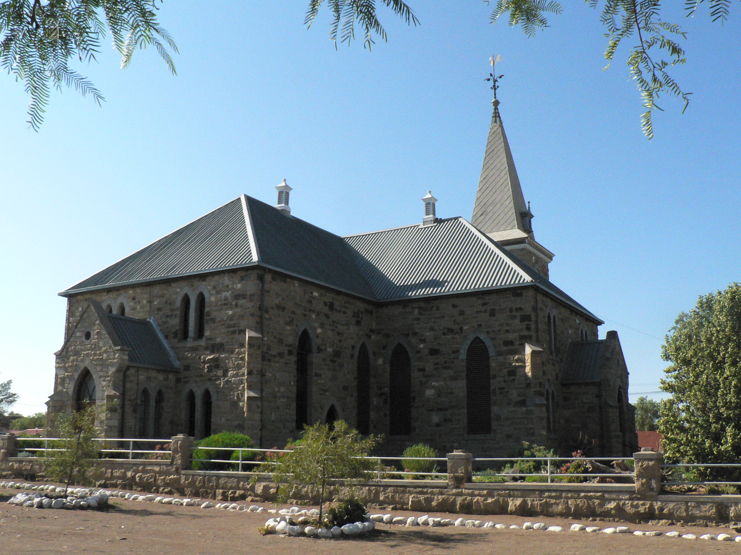 This media shows a South African Protected Site with SAHRA file reference 9/2/107/0004.